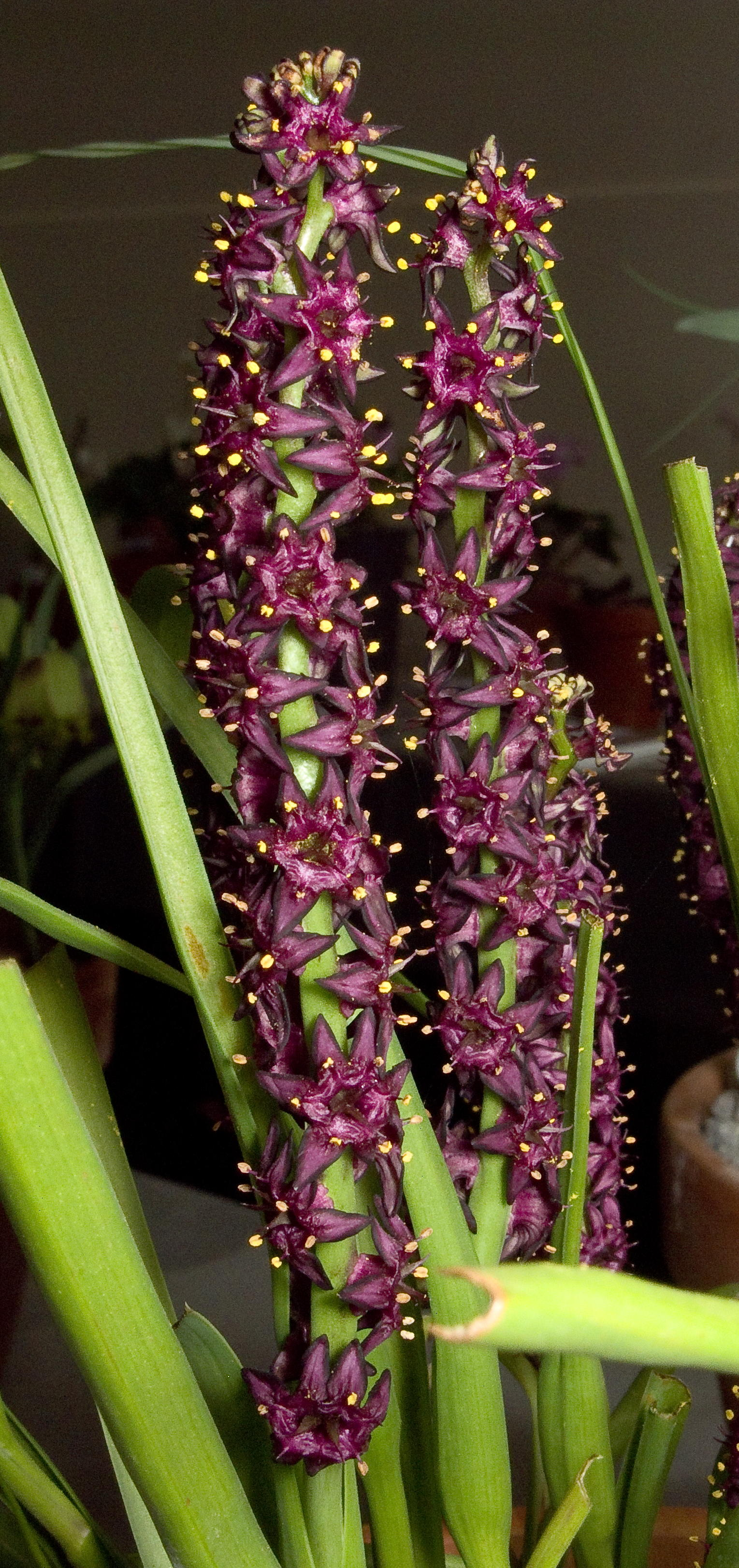 Wurmbea recurva in cultivation at the Midland Show of the Alpine Garden Society